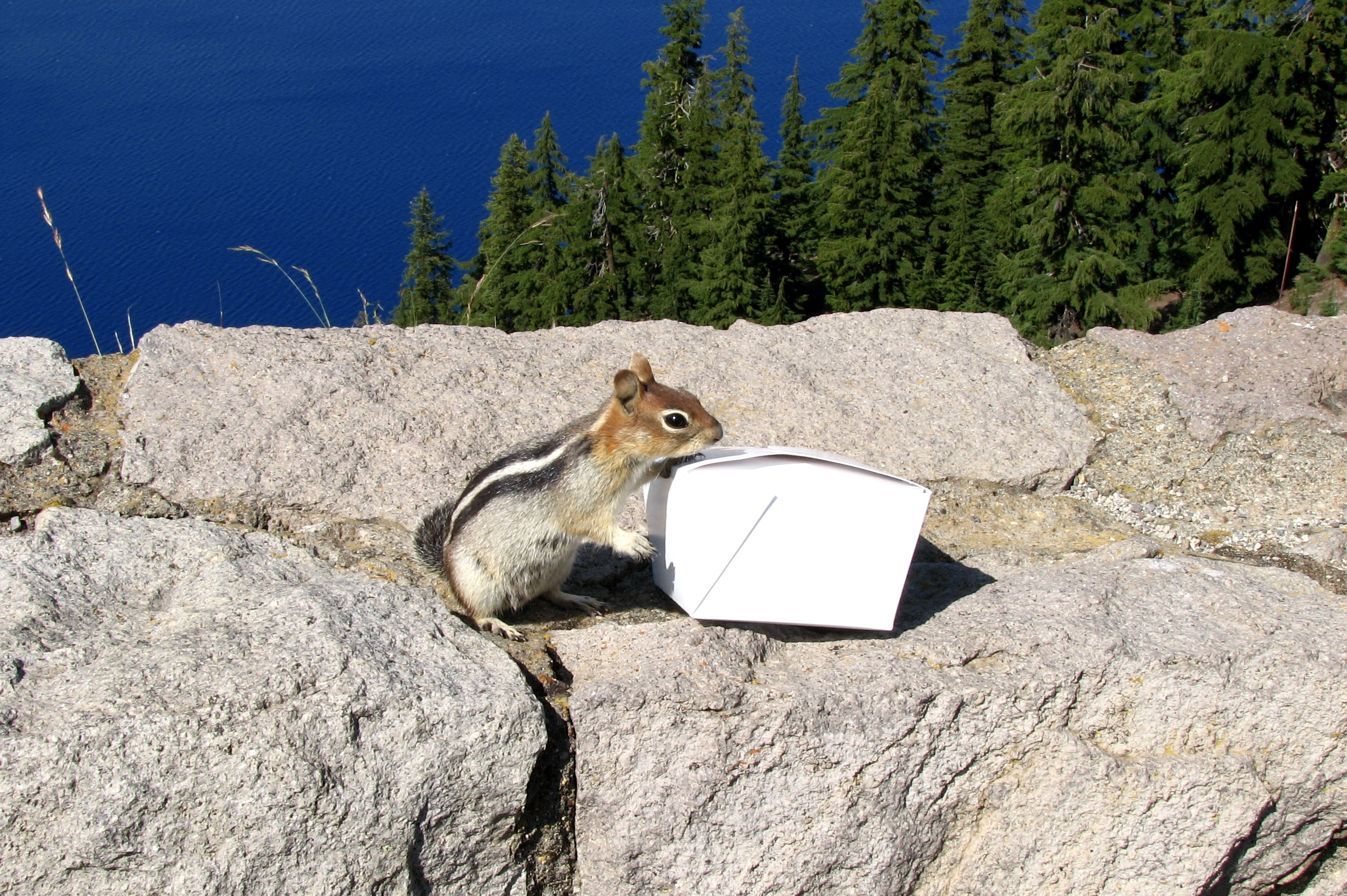 crater lake, north america, road trip, the west, pacific northwest